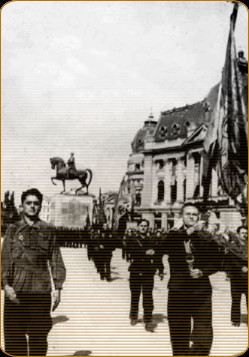 Demonstration by the Iron Guard in Bucharest, 1940